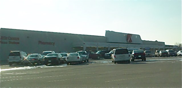 Kmart store 4018, in Dubuque, Iowa. This location has the distinction of being the first Kmart store to open in Iowa. I took this in February of 2006. Jesster79 03:05, 3 February 2006 (UTC)